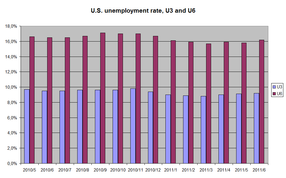 Relationship between U3 and U6-definitions of US unemployment.